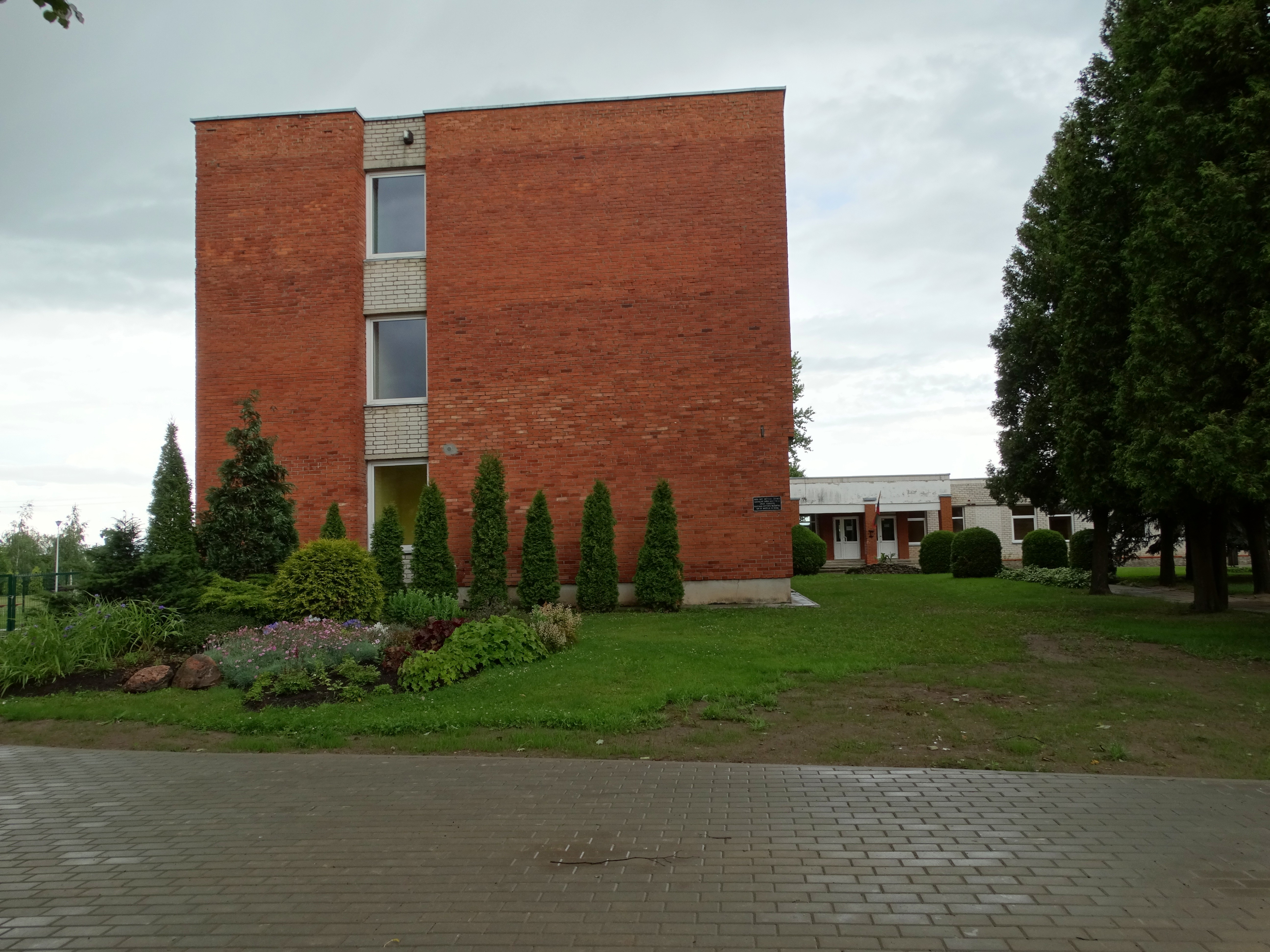 Žeimiai, school, Jonava district, Lithuania